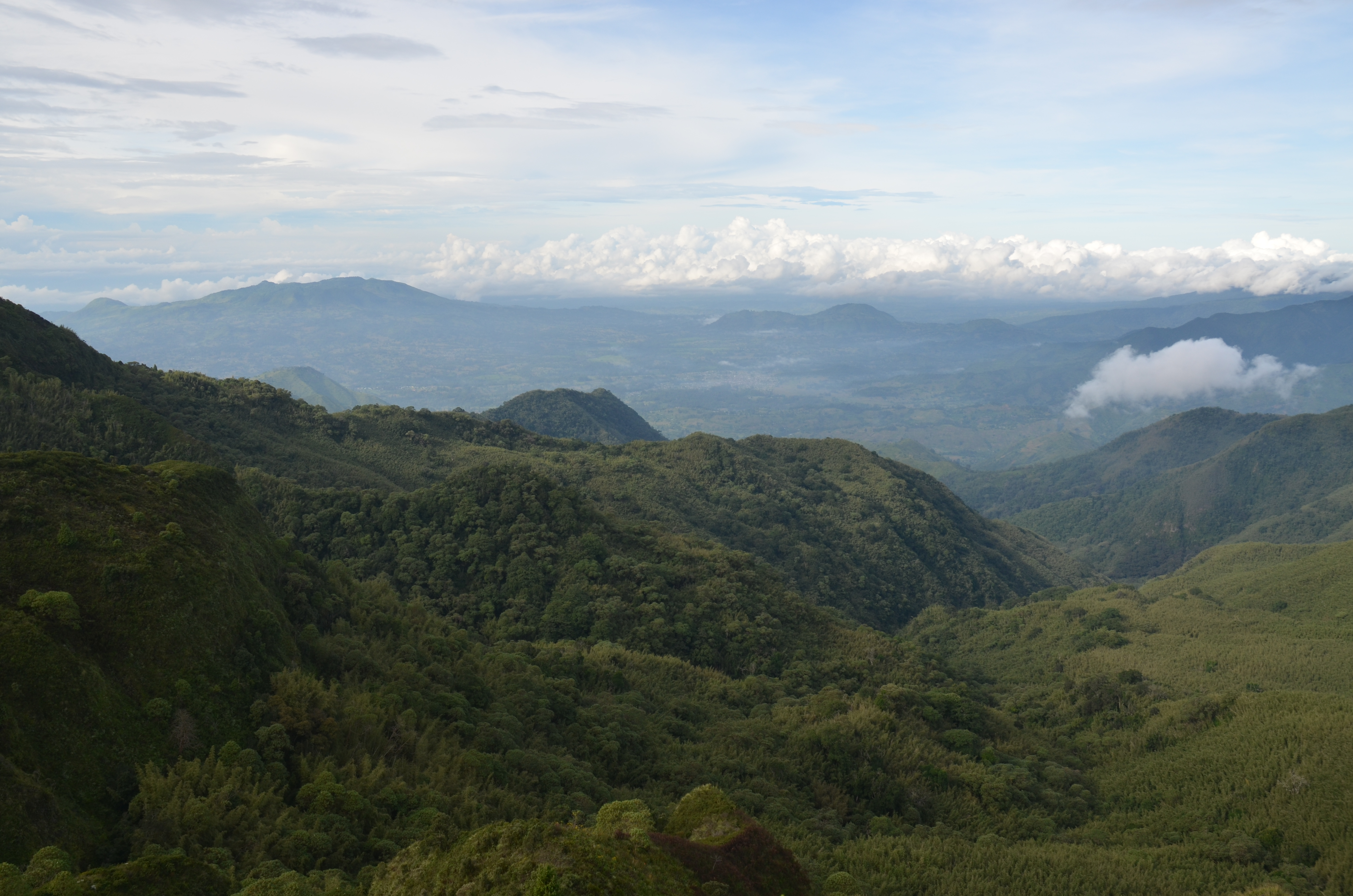 Picture taken in Kitulo National Park.